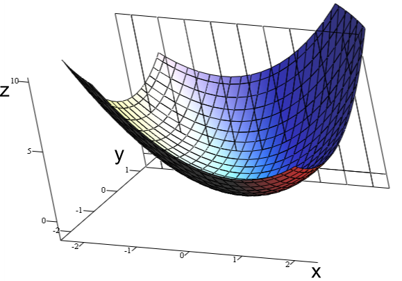 Graph of xx+xy+yy=z and y=1 for teaching partial derivatives.